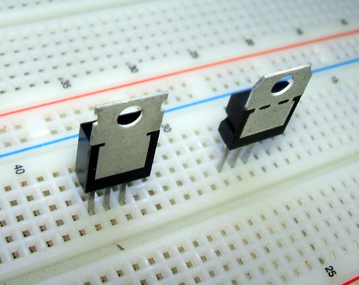 Voltage Regulators. 7805 is the right and the left is the 7905